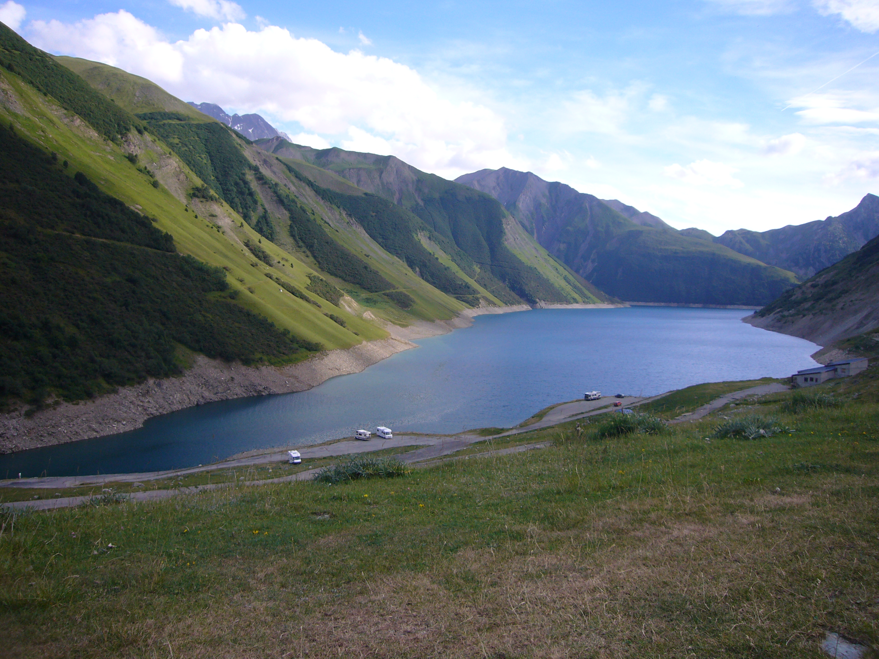 Grand Maison Lake/Lac de Grand Maison (1698m)